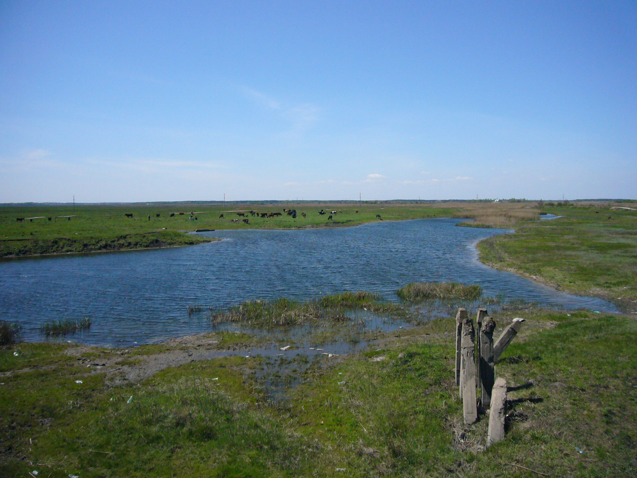 Ternivka River in Ternivka, Dnipropetrovsk Region, Ukraine